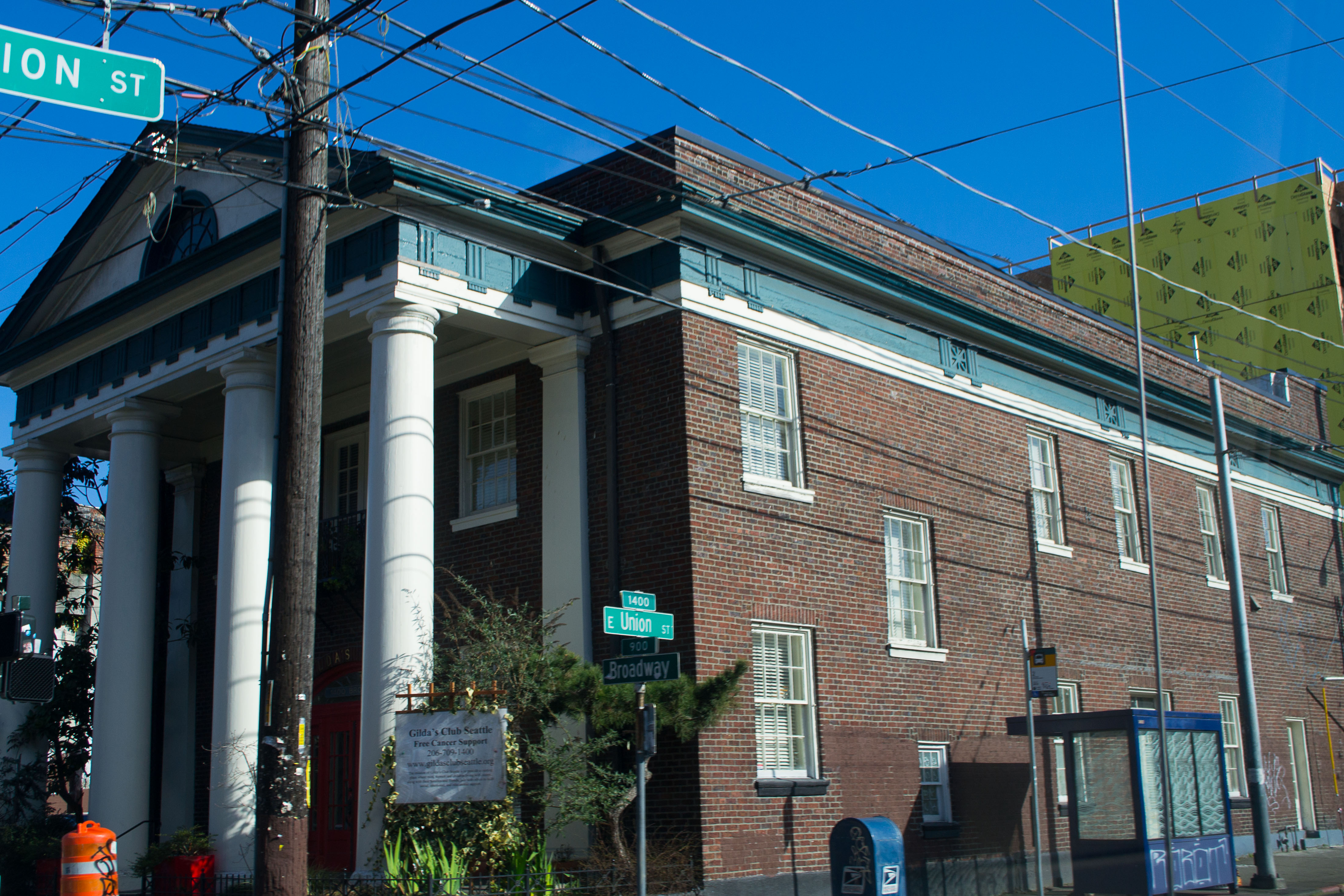 1400 Broadway, Seattle, Washington, USA. Originally the Johnson & Hamilton Mortuary, it has been through various uses and is currently Seattle Gilda's Club, a non-profit support network for the families and friends of those living with cancer.